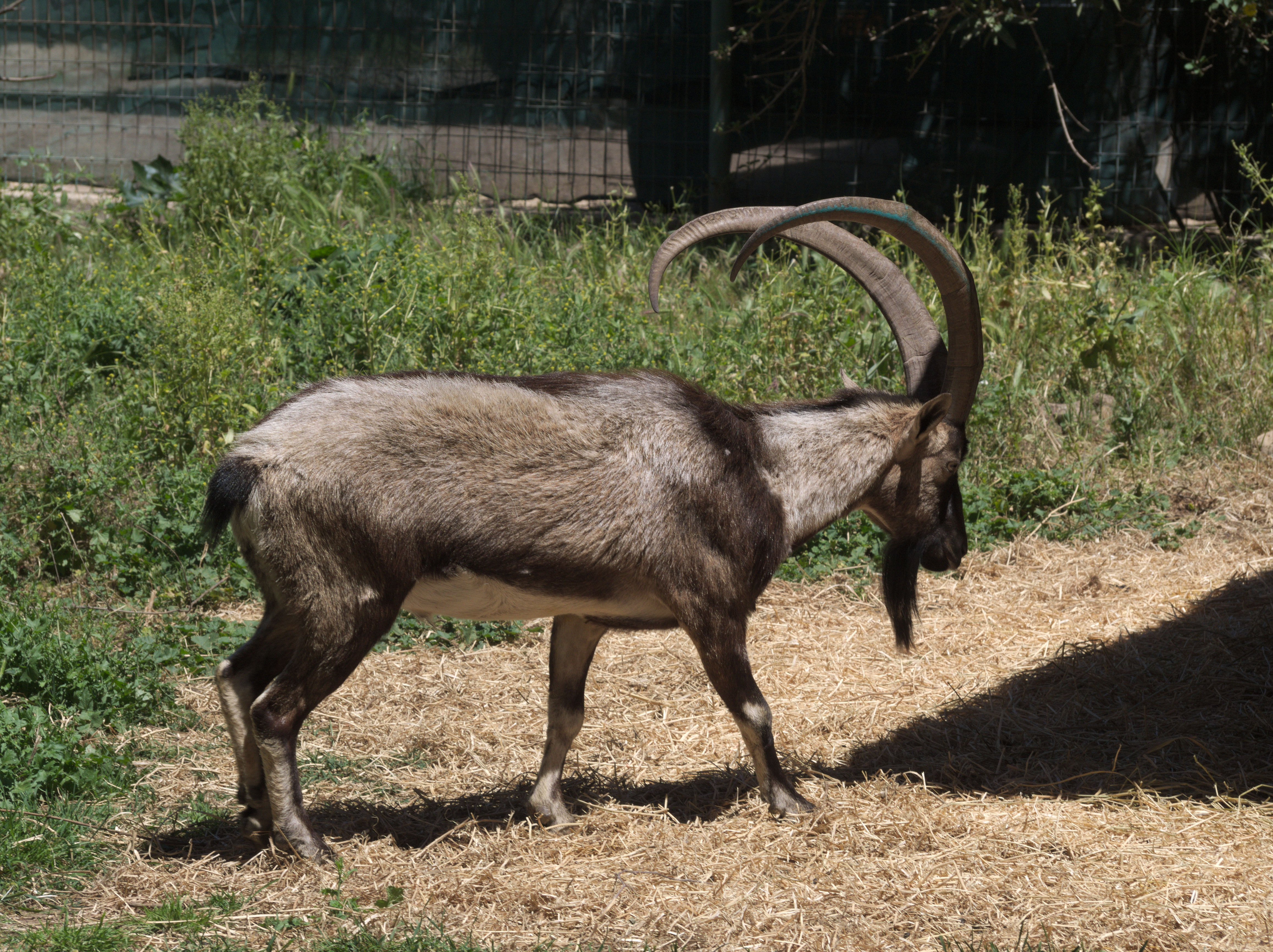 A male Kri-kri (Capra aegagrus cretica) in Chania Municipal Garden.